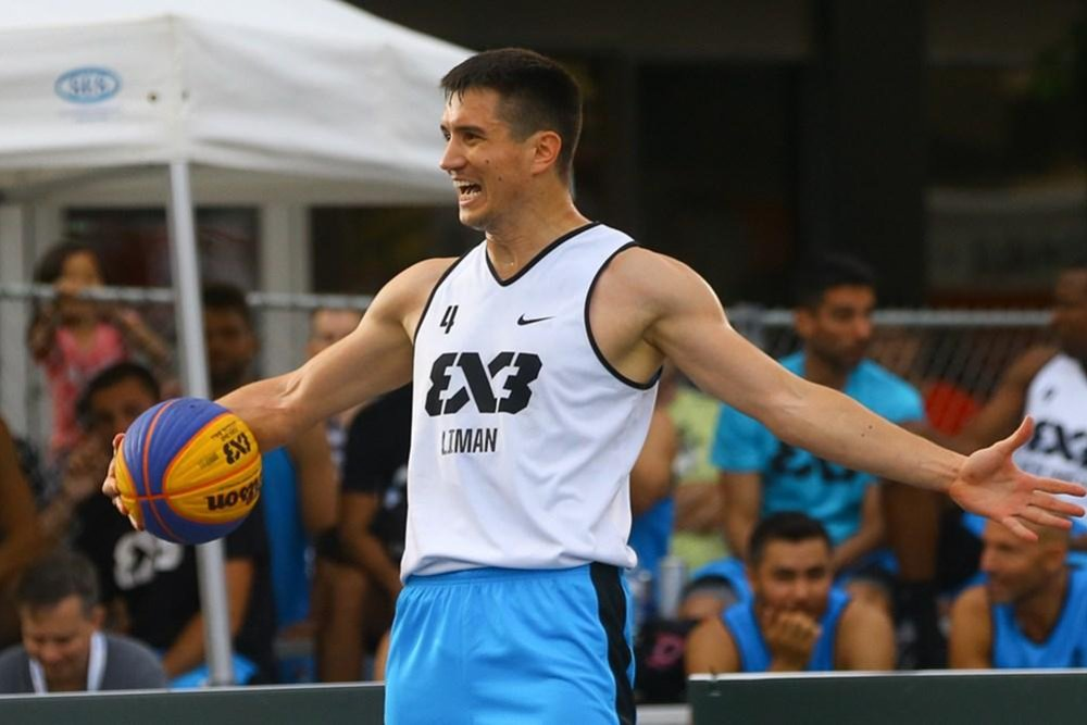 Stefan Stojacic, 3x3 player, on Fiba World Tour he represents team Liman 3x3, Novi Sad, Serbia